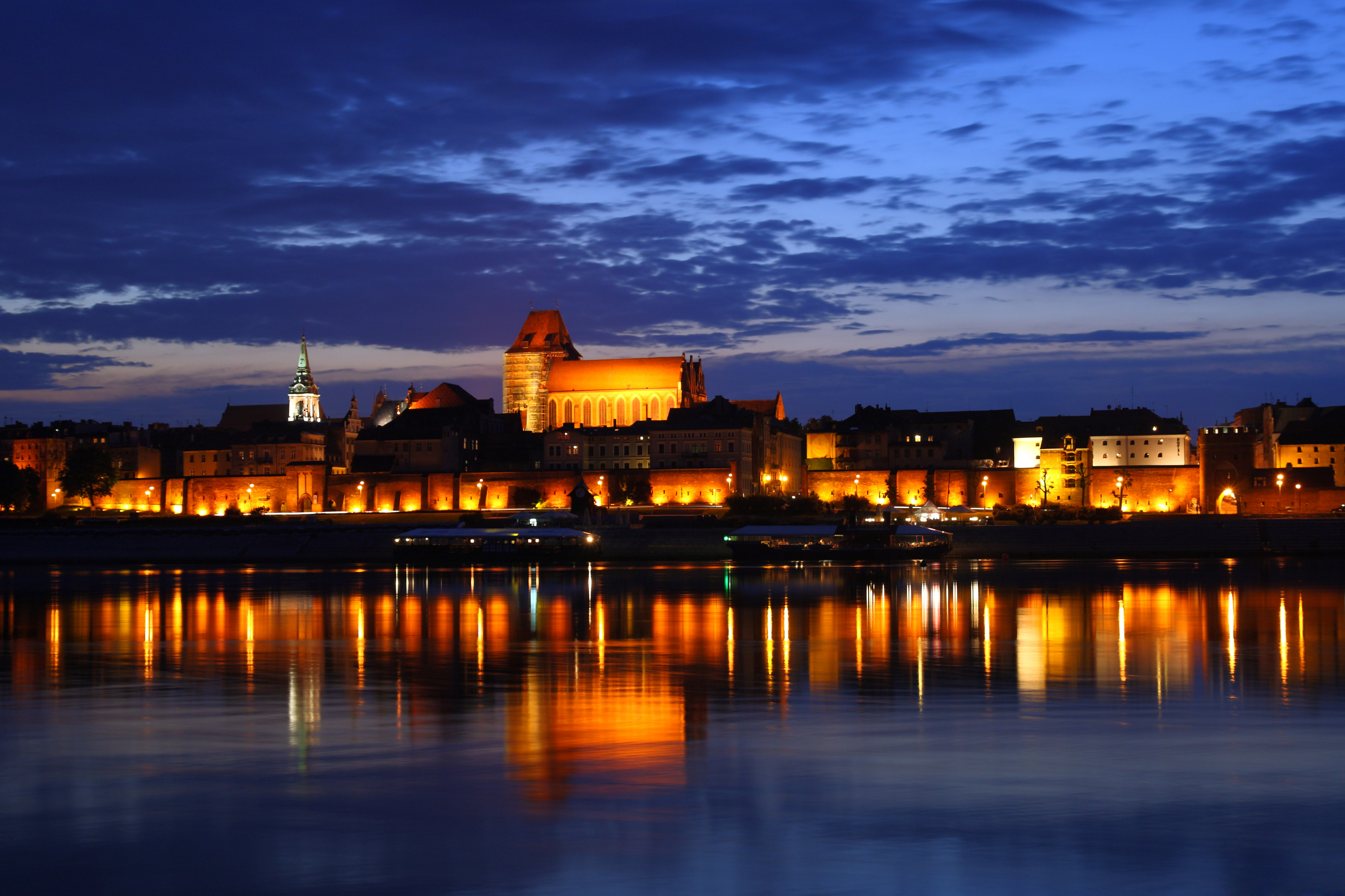 Old Town in Toruń from the left side of the Vistula.